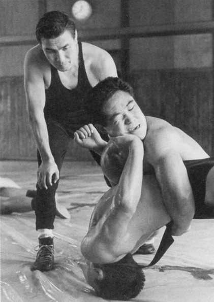 Shozo Sasahara (left) and Osamu Watanabe (top-right) preparing for the 1964 Olympics